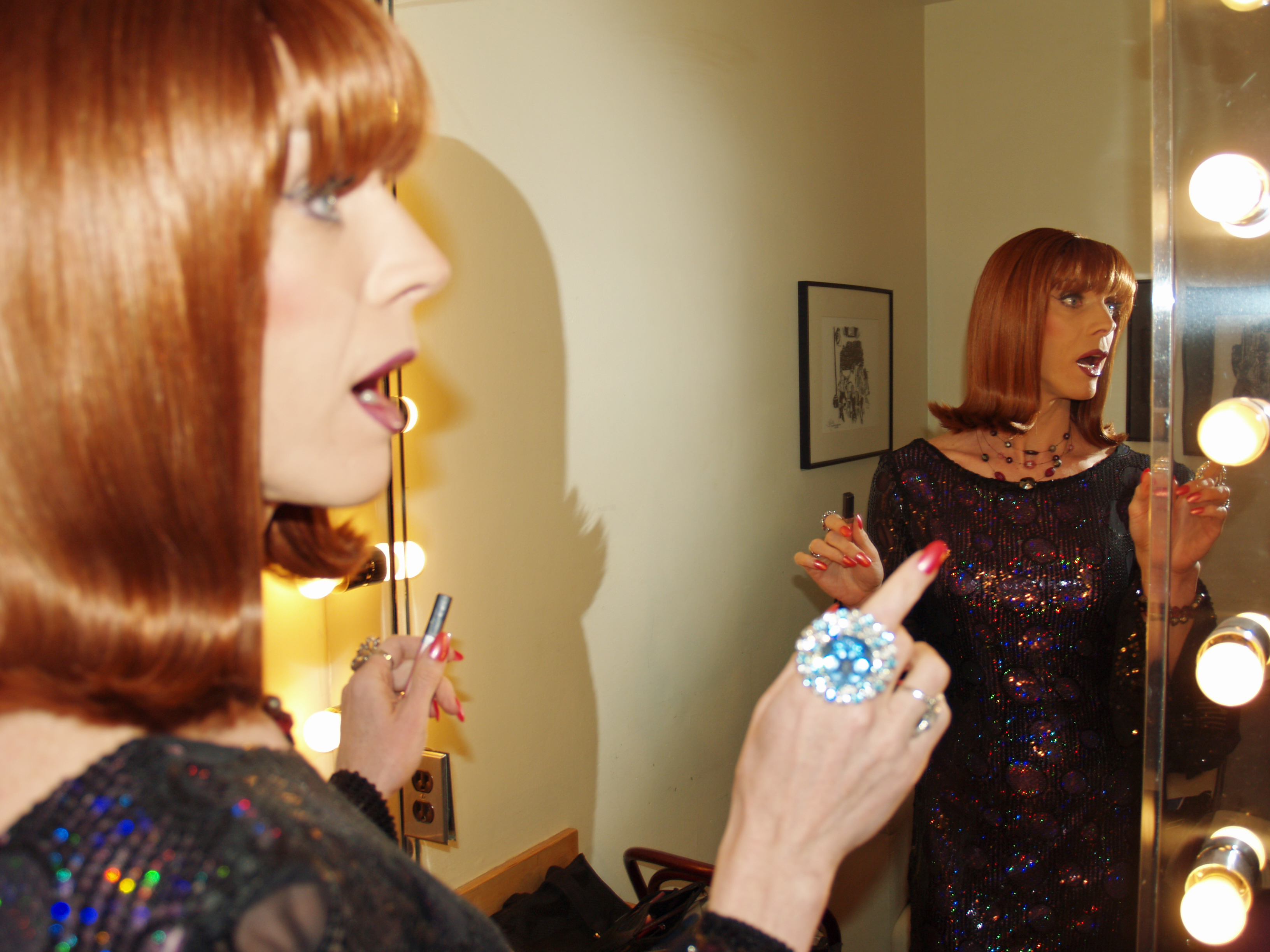 Miss Coco Peru is told backstage at the Public Theater that it's show time.